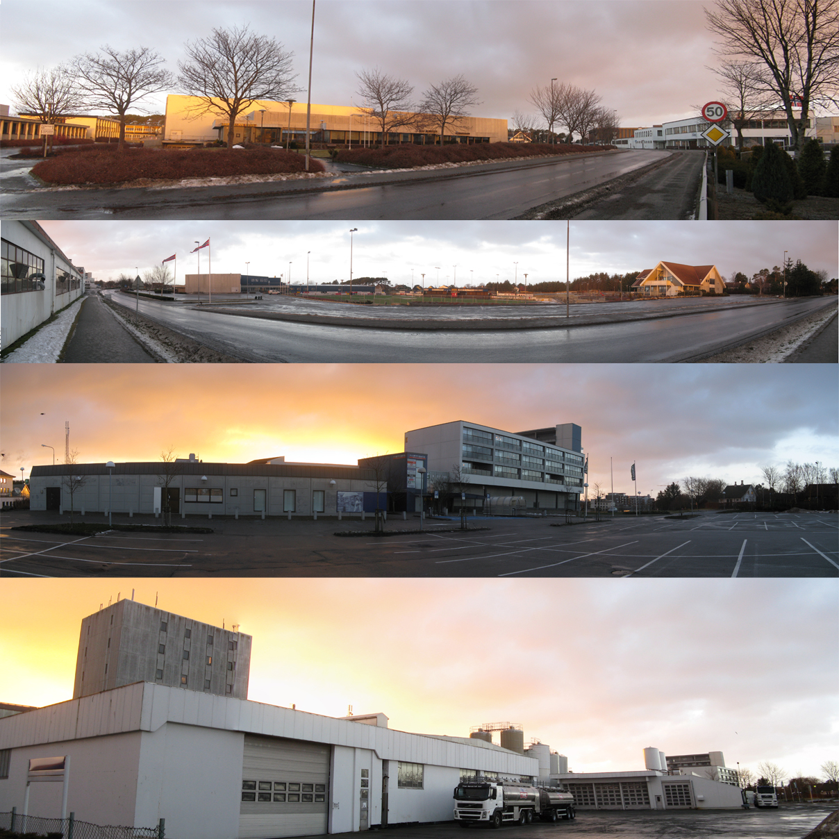 Some panoramas from down town Nærbø